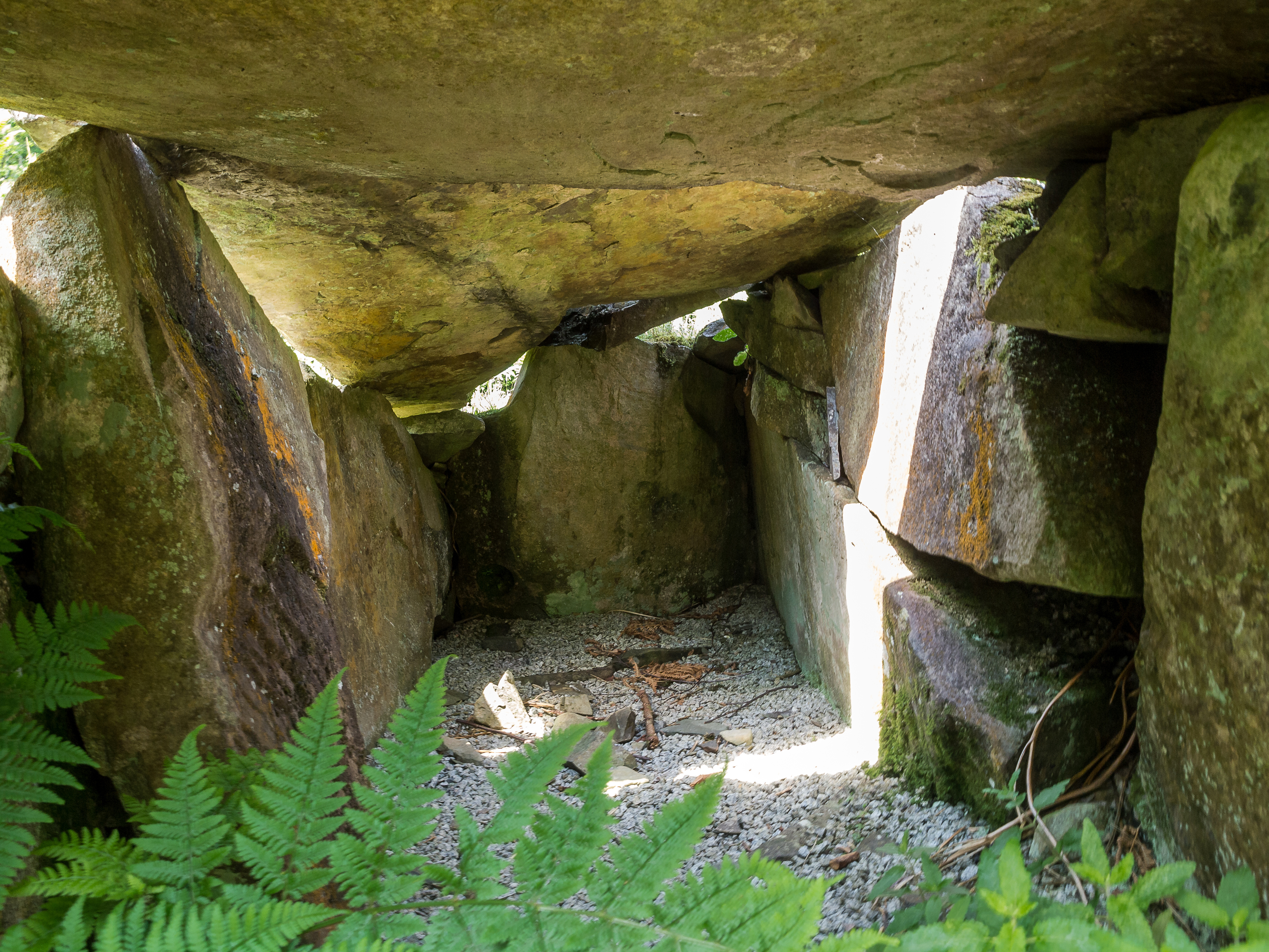 White Cairn -interior of burial chamber. This small probable neolithic chambered cairn was excavated in 1949 and subsequently gave its name to a sub-group of passage graves in which the burial chamber and the passage form a single undifferentiated unit - the Bargrennan group, found only in south-west Scotland. Cremated bones and sherds of neolithic pottery were found in the passage. Further excavations were carried out in 2004 and 2005, and a burial cist and pot, as well as a separate early bronze age burial pot and other artefacts were discovered on either side of the passageway. Late mesolithic flints were also discovered around the edge of the cairn, suggesting human activity at the site over thousands of years of prehistory